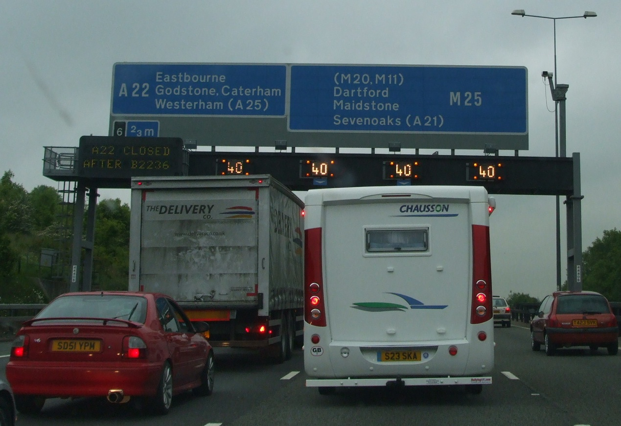 Traffic Congestion on the M25 motorway near Reigate.